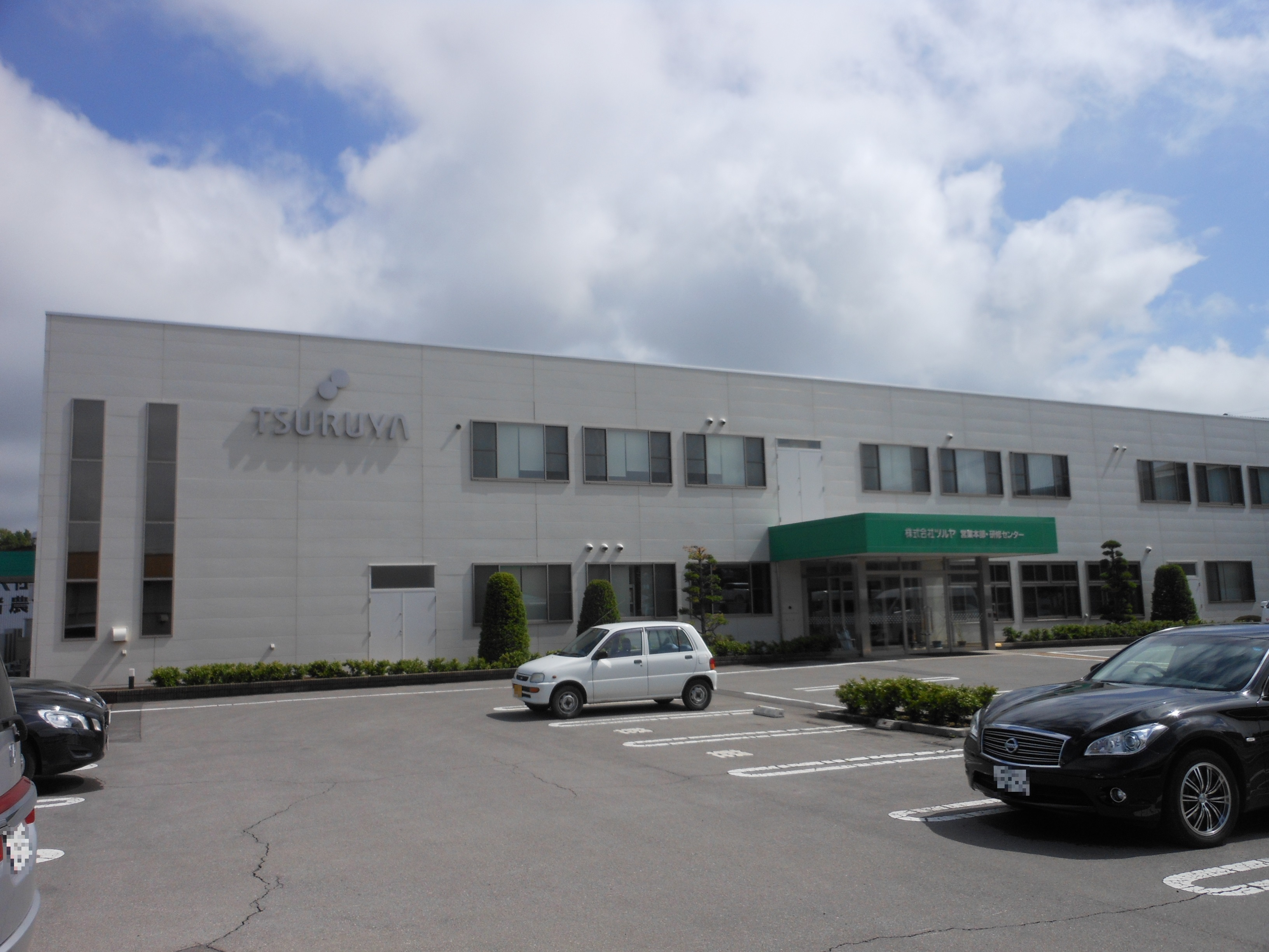 This is the building of Tsuruya Co., Ltd. sales and marketing division.